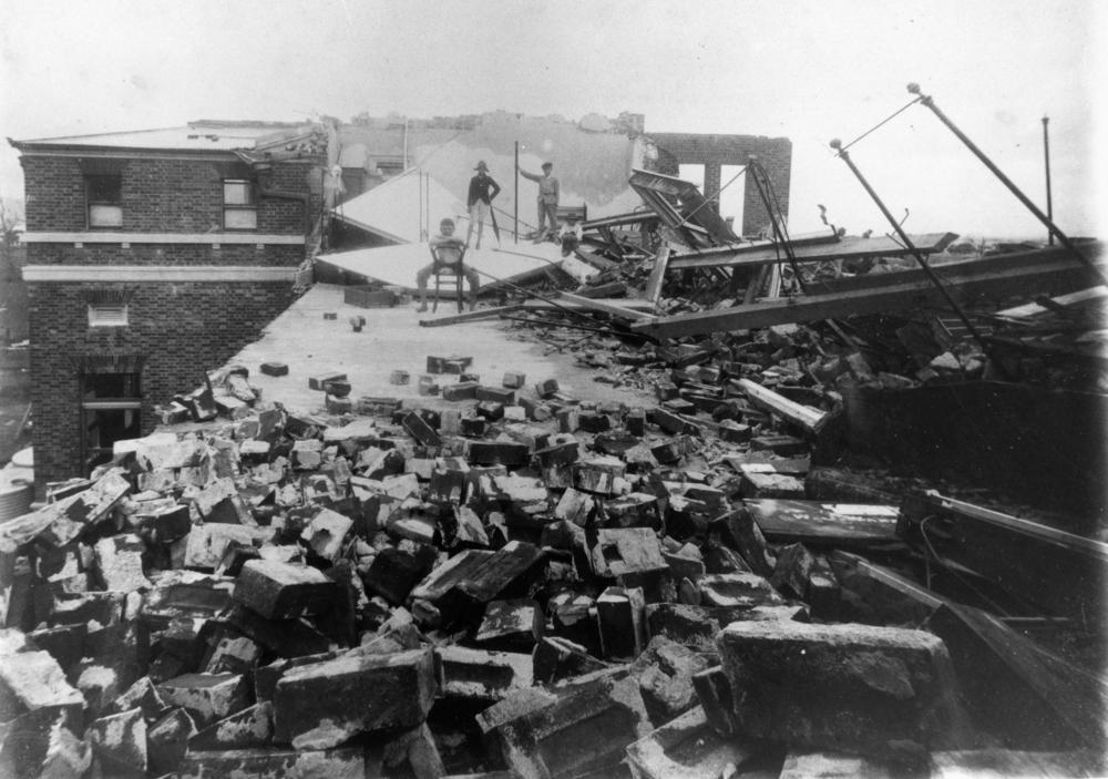 Destruction of part of Townsville Grammar School caused by Cyclone 'Leonta' in 1903. Cyclone 'Leonta' struck Townsville on March 9th, 1903. Image shows the complete destruction of the brick dormitory of the Townsville Grammar School looking from Paxton Street. [Description supplied with photograph] Several boys pose amidst the bricks and debris.